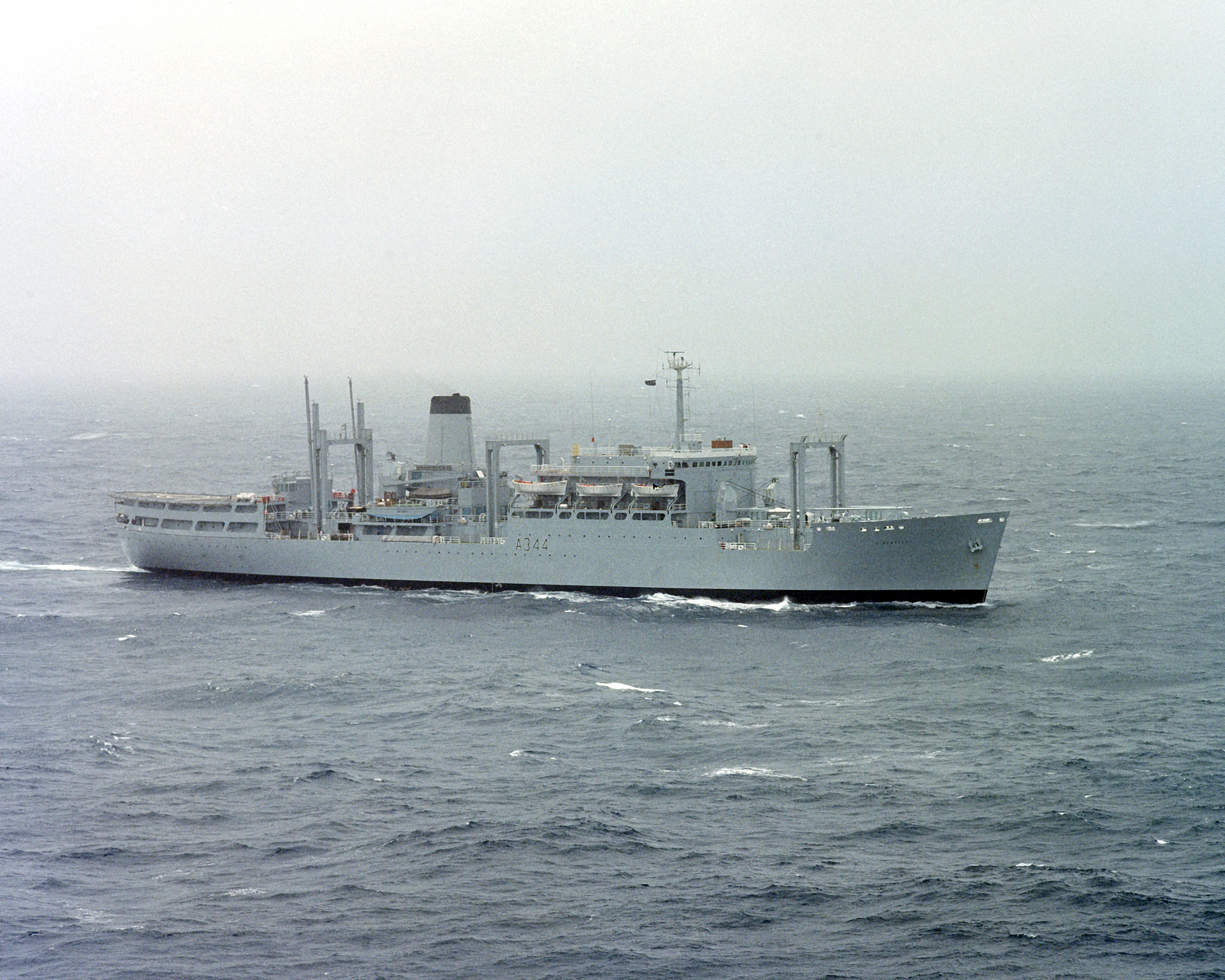 A starboard bow view of the British stores support ship RFA Stromness (A344) underway in the North Atlantic.